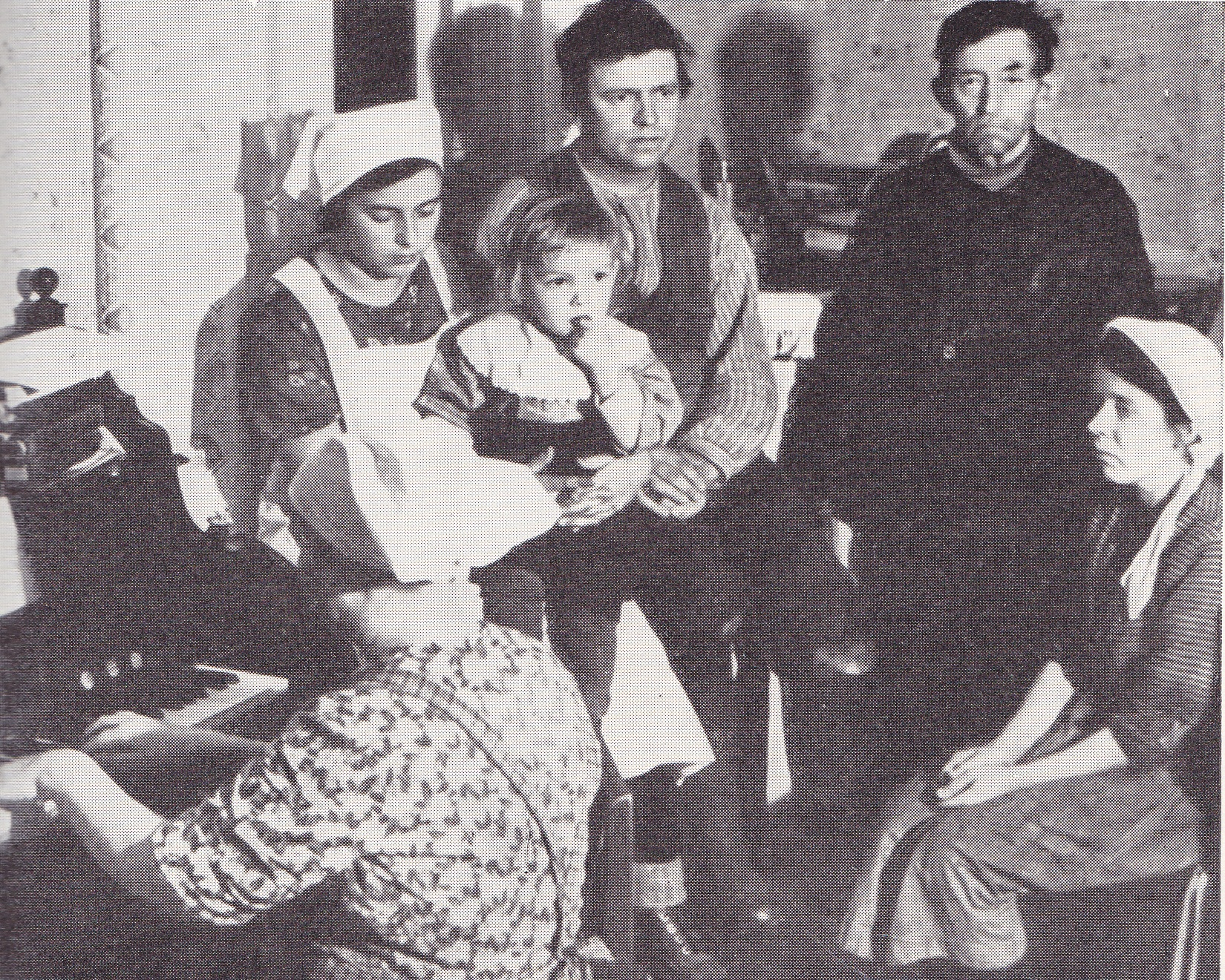 Korpela movement leader Sigurd Siikavara (striped shirt and vest, center) in the 1930's